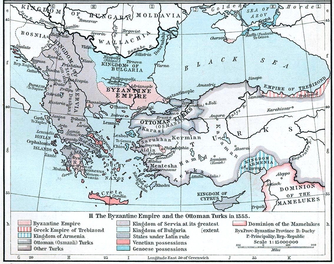 Map of the Byzantine, Ottoman and Serbian empires and their neighboring states, 1355.